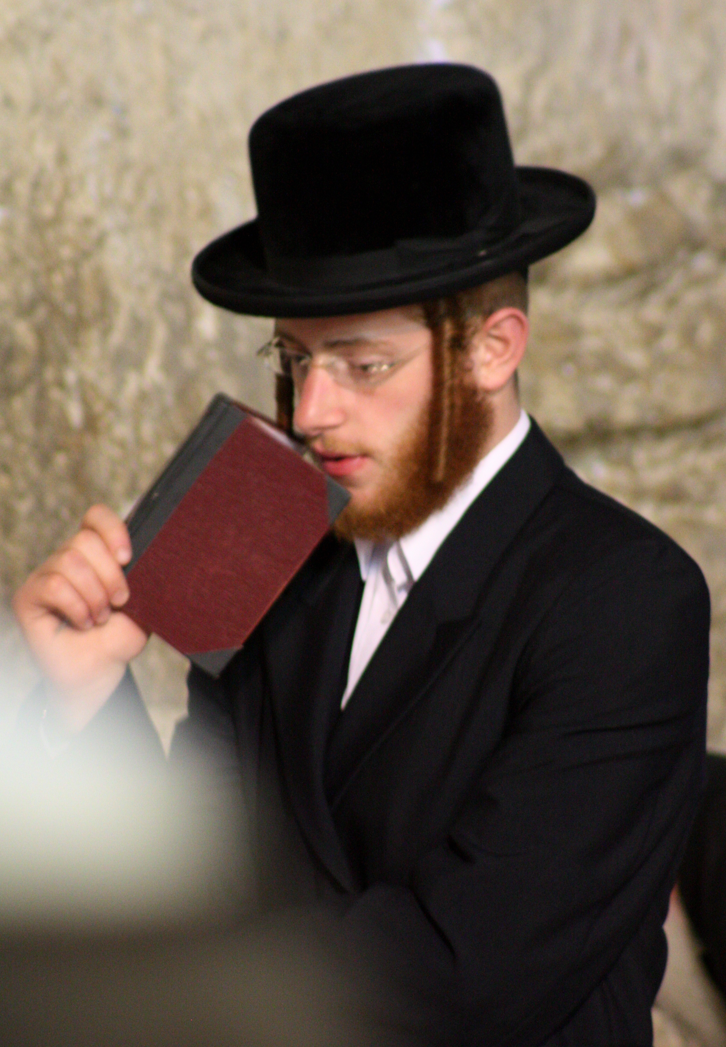 The old city.